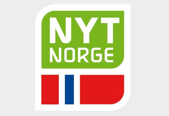 Nyt Norge-merket